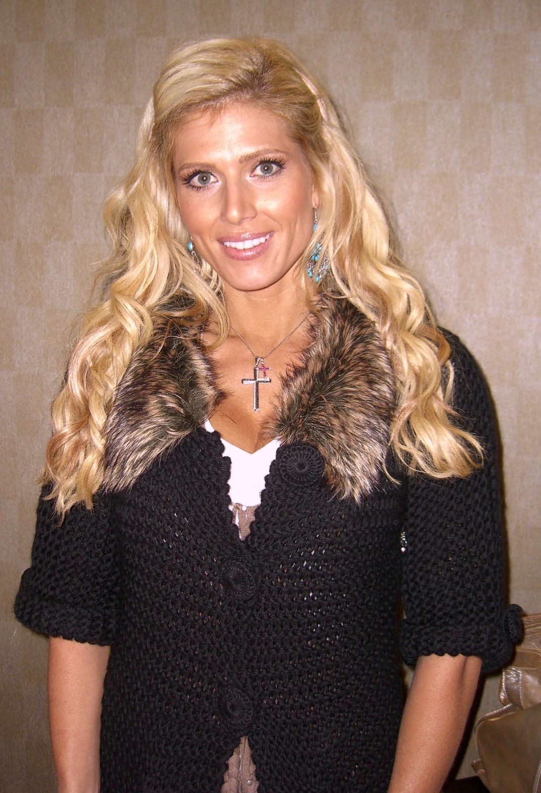 Professional wrestler Torrie Wilson at the Big Apple Convention in Manhattan, October 1, 2010. Photo by Luigi Novi. This photo may be used, modified and published for any purpose, only if a easily visible credit to the photographer is placed near the photo in each instance in which it is used. (See licensing information below.) Publication of this photo without this proper attribution constitutes copyright infringement. For more information on my photos, you can contact me here.